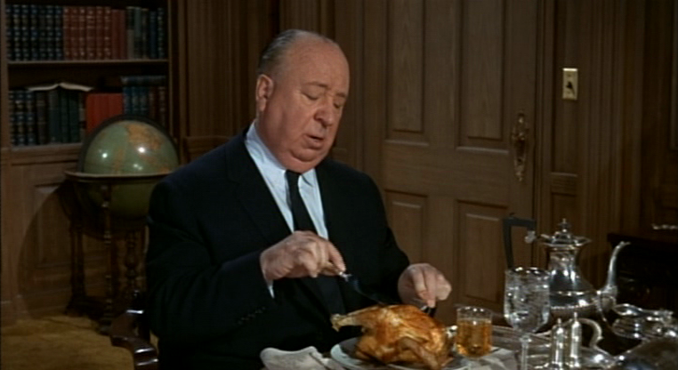 Alfred Hitchock's The Birds trailer